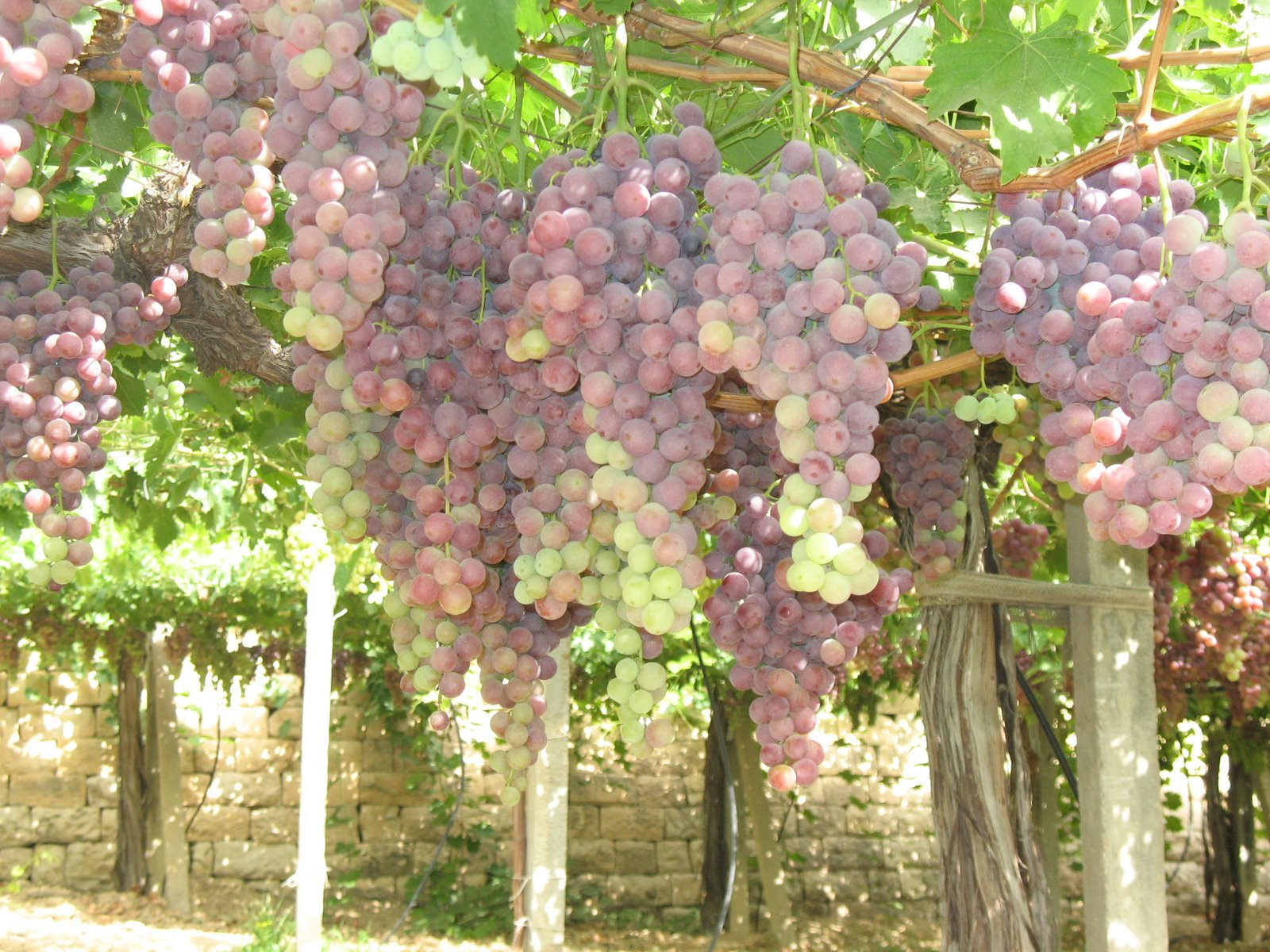 A picture of Kroum Zahle showing the grapes